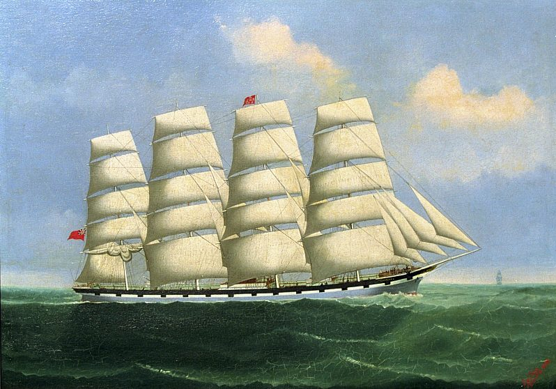 Ship Portrait of the British four-masted Ship "Liverpool II" 1898, the full-rigged ship at calm sea